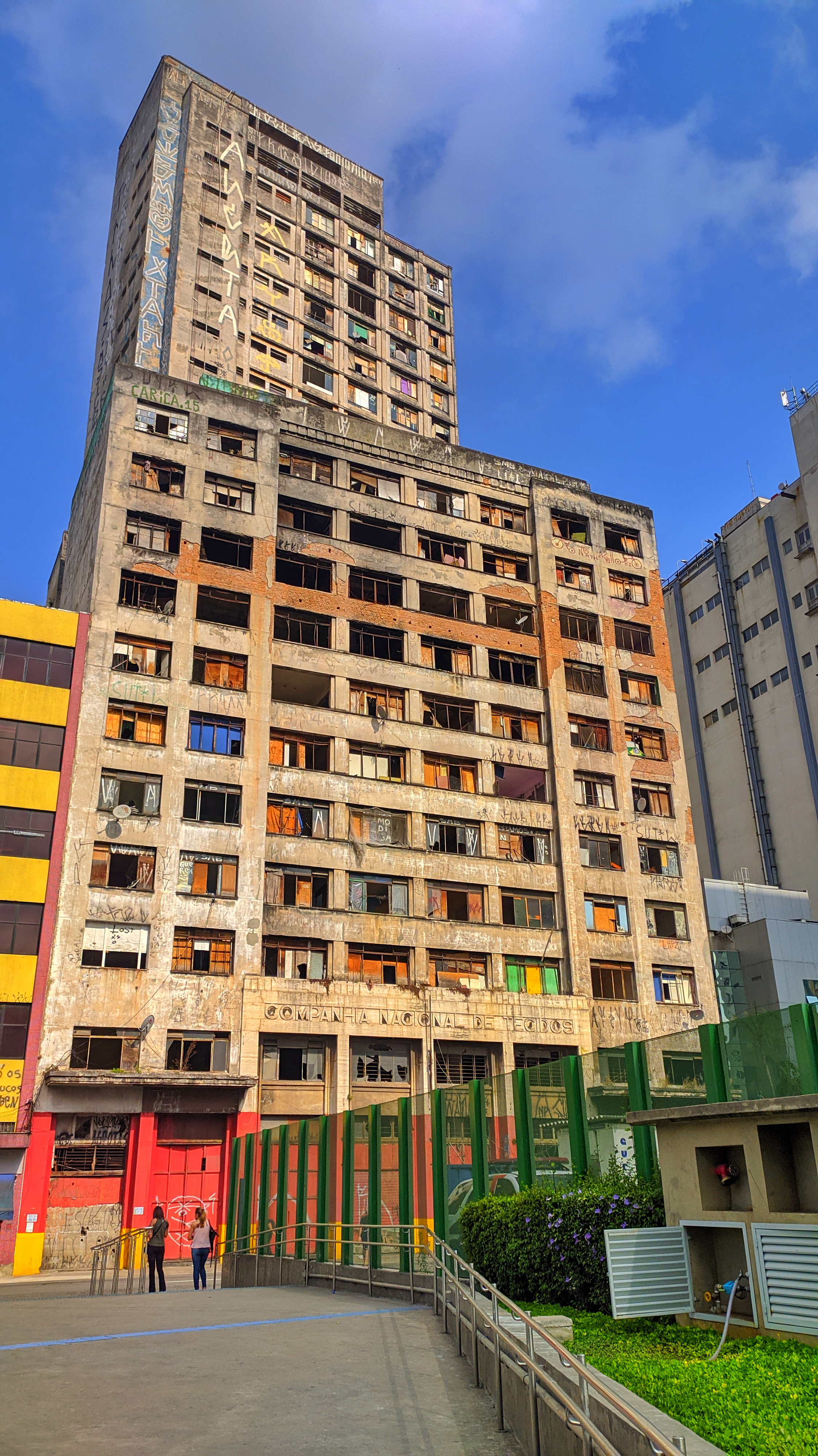 Prestes Maia building, in São Paul downtown.